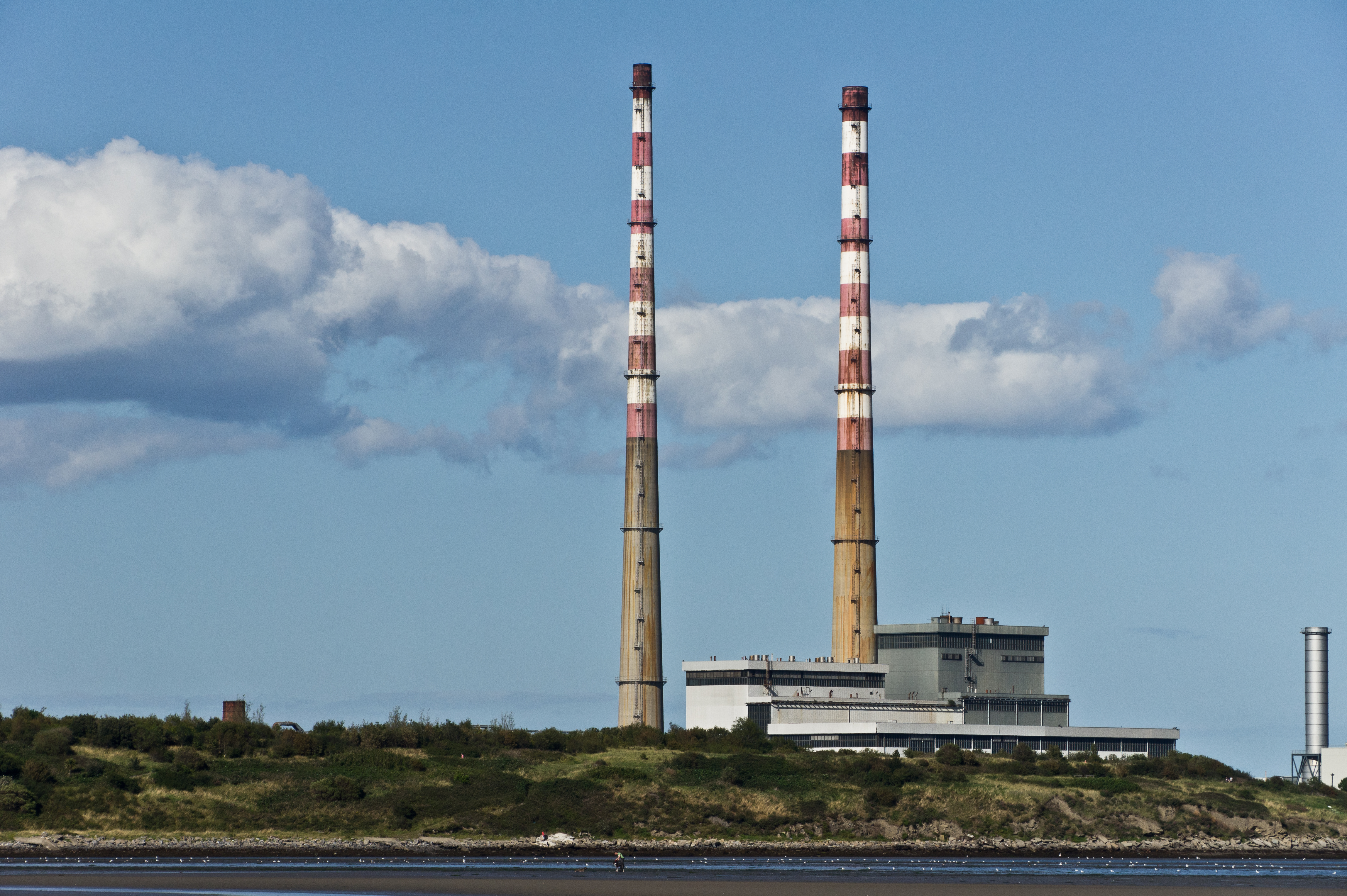 Sandymount Strand is a large strand on the east coast of Ireland, adjacent to the village and suburb of Sandymount in Dublin. The strand, which is part of the South Bull, (a mirror to the North Bull sandbank, which grew into North Bull Island) is a major component of the south side of Dublin Bay. Sandymount Strand is a popular place for locals to take a walk. It is not ideal for swimming; the beach's gradual slope makes the water too shallow to allow swimming near the shoreline. People and cars have been occasionally trapped by the incoming tide. A large inlet of water that remains even at low tide is known locally as "Cockle Lake".